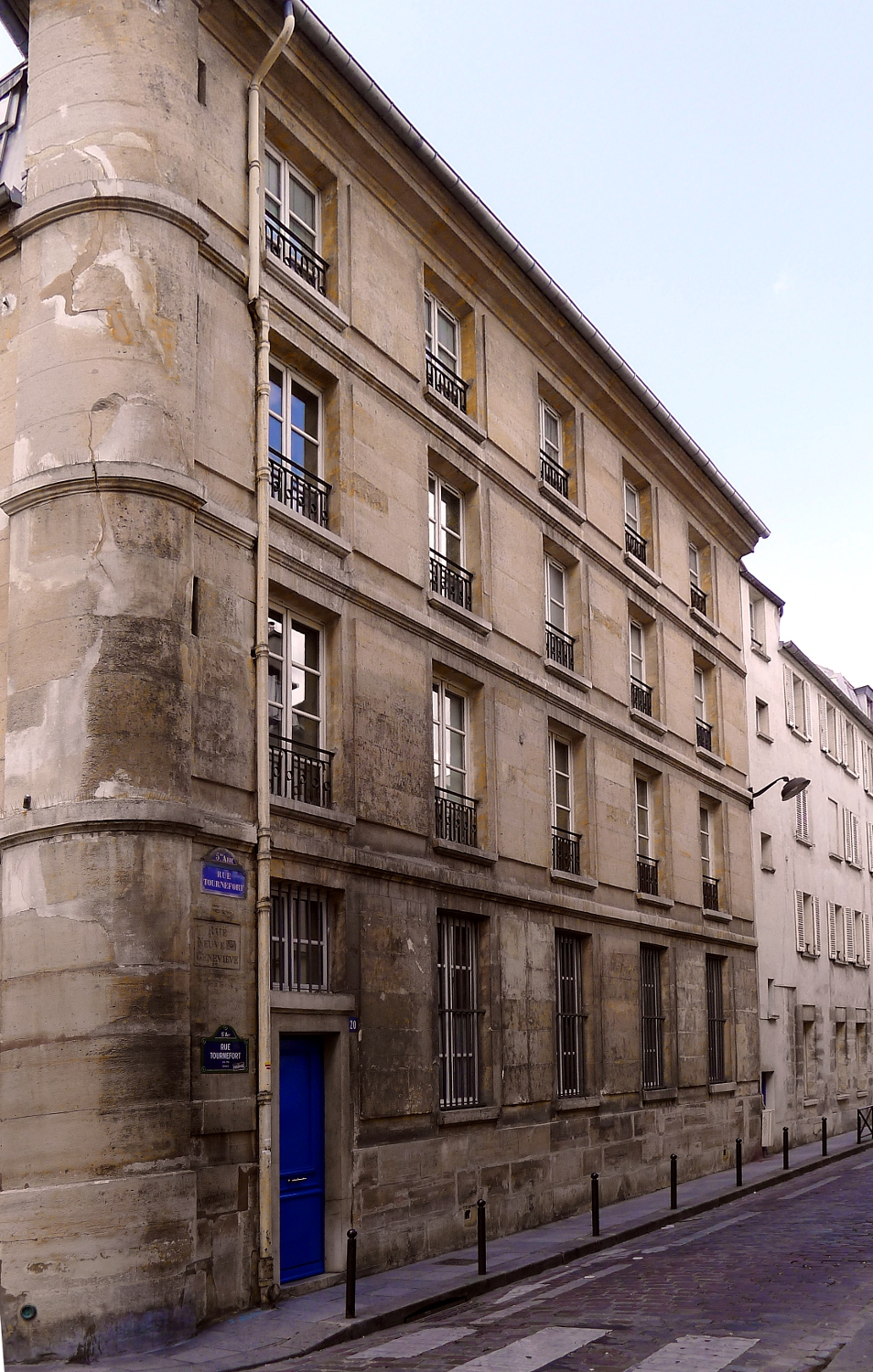 Rue Tournefort - Paris